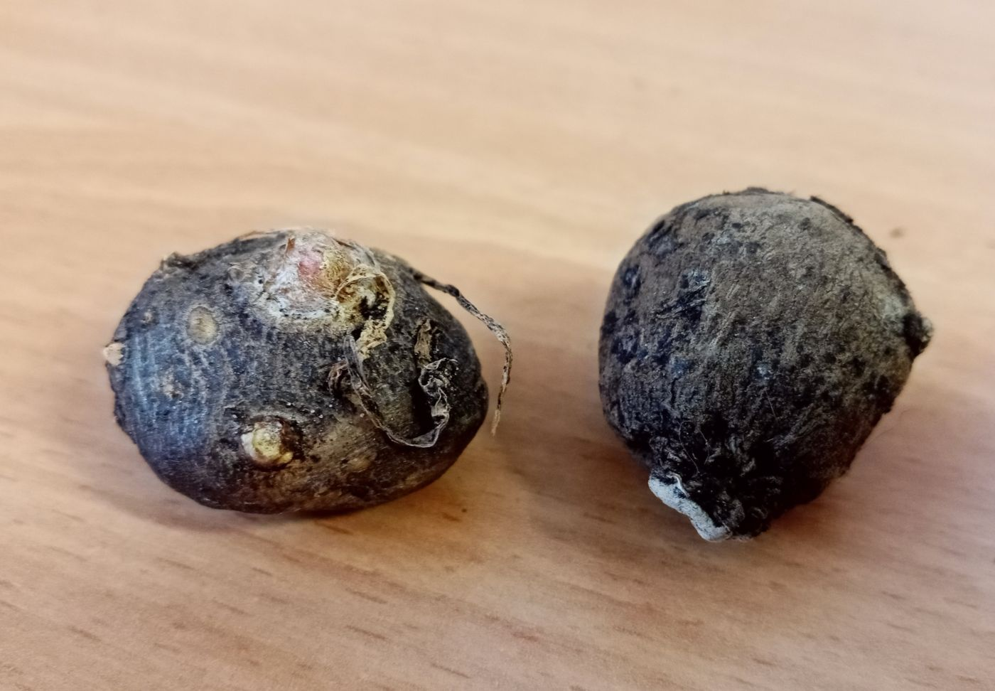 Bulbs of Spathantheum orbignyanum